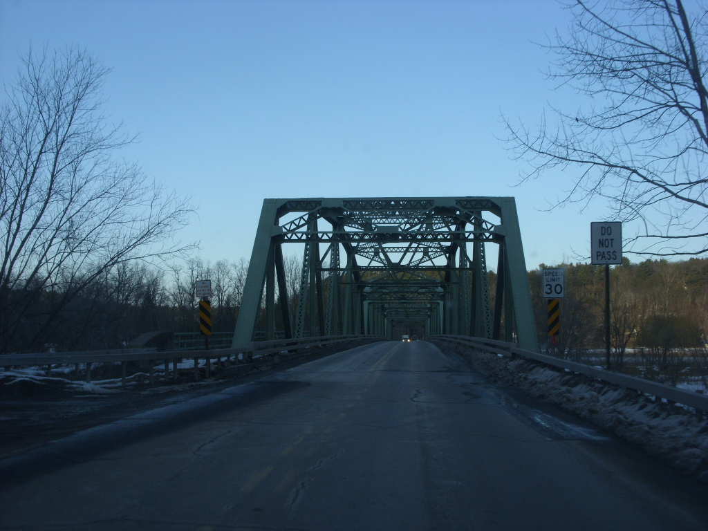 Cochecton-Damascus Bridge, connecting Cochecton, NY and Damascus, PA over the Delaware River